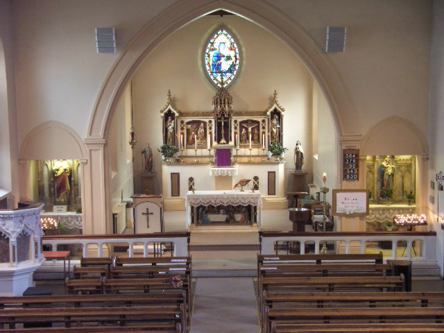 I, John Allison, took this photo in Our Lady of Gillingham Catholic Church with the permission of the Parish Priest.